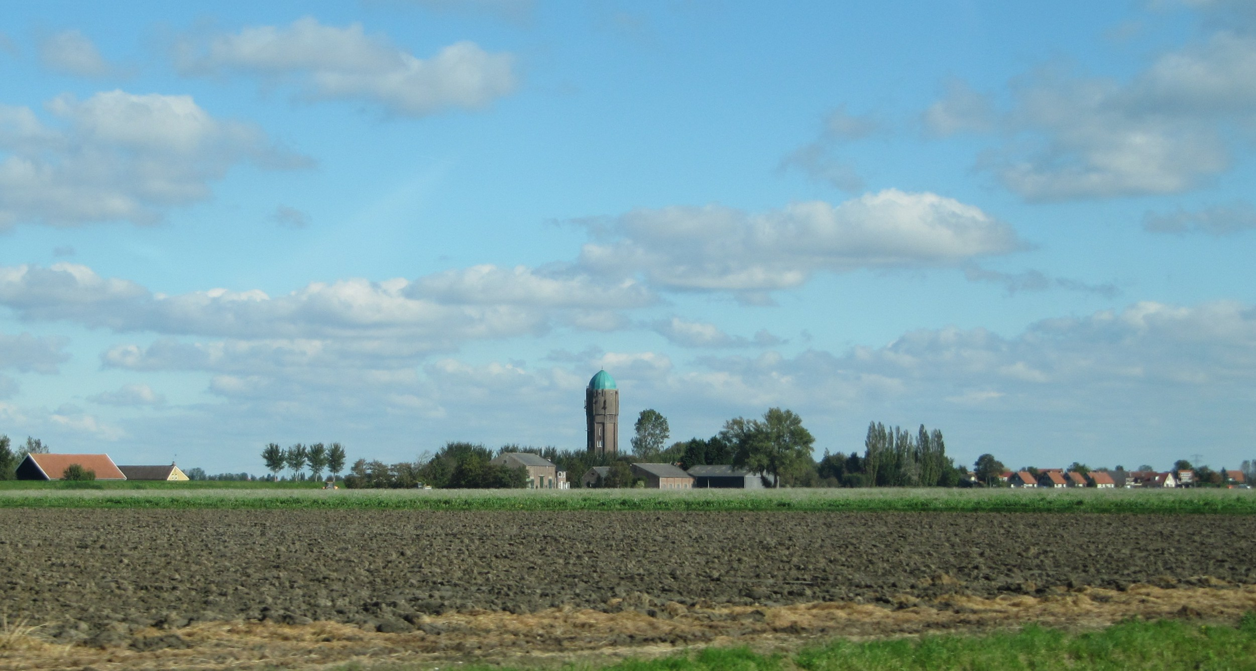 Zuidzijde